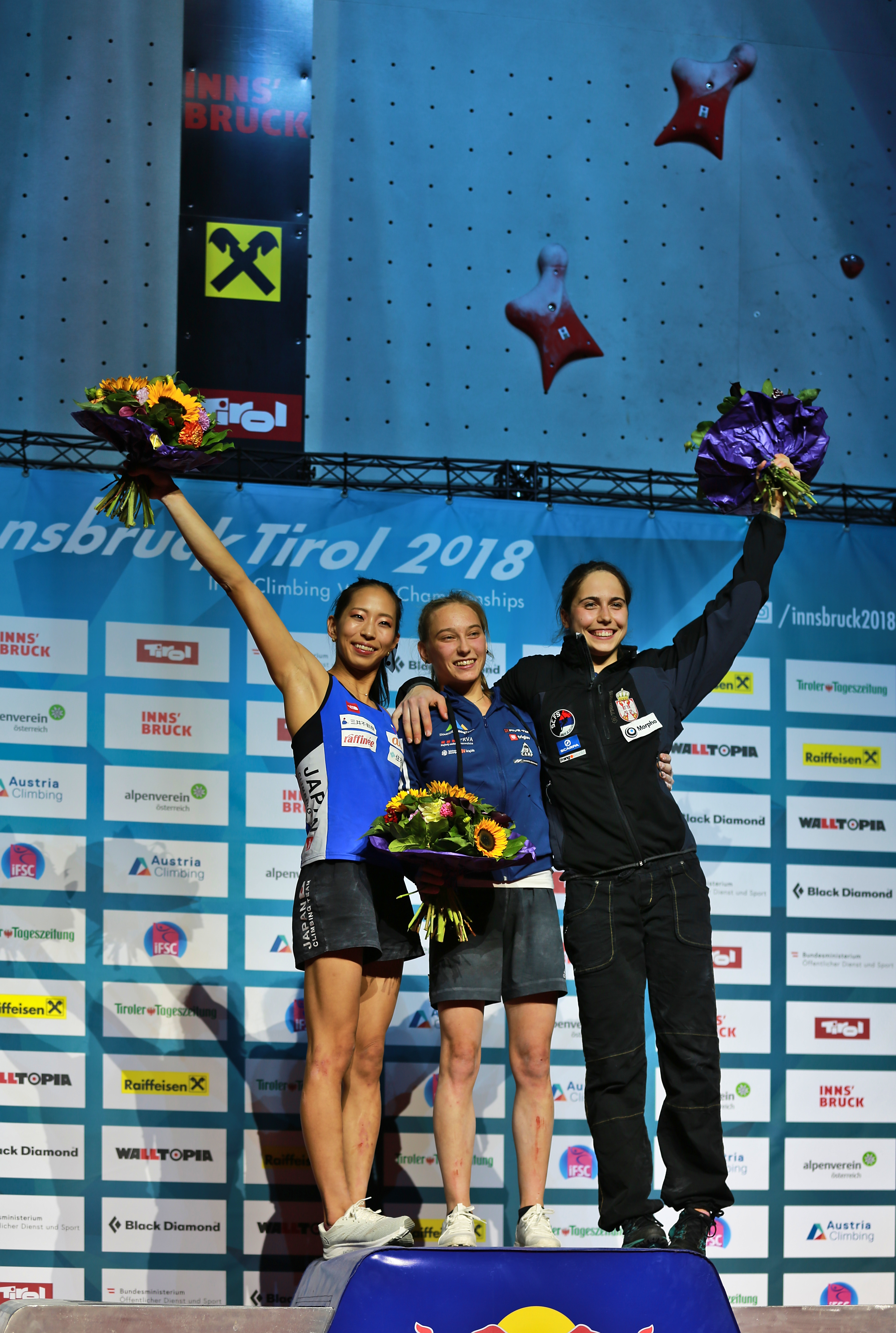 Climbing World Championships 2018 Boulder Final Woman winners